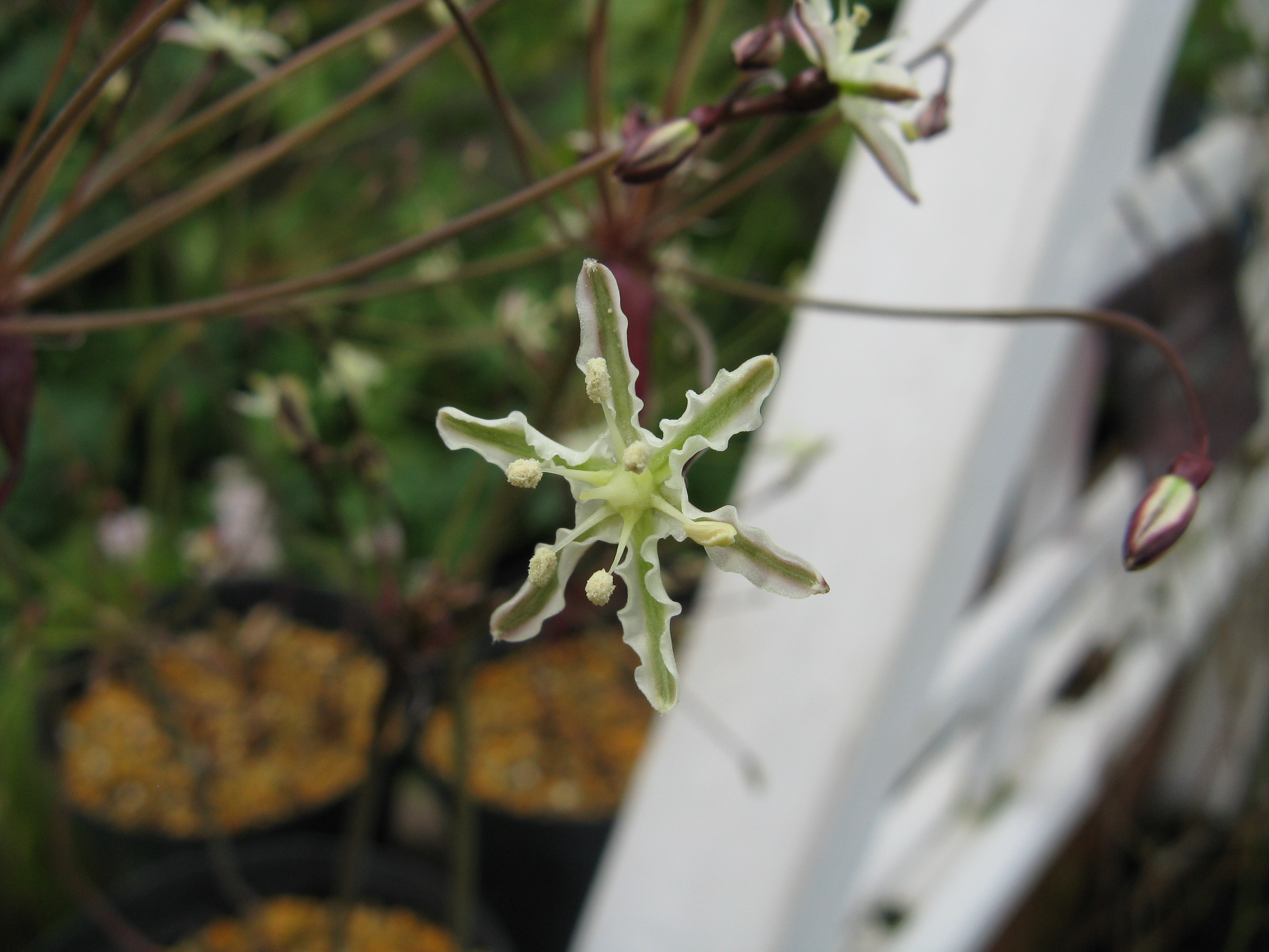 Scientific name Hessea gemmata Place:Osaka Prefectural Flower Garden,Osaka,Japan